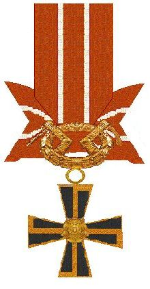 The III class of the Order of the Cross of Liberty (Finland), with swords, for wartime merits